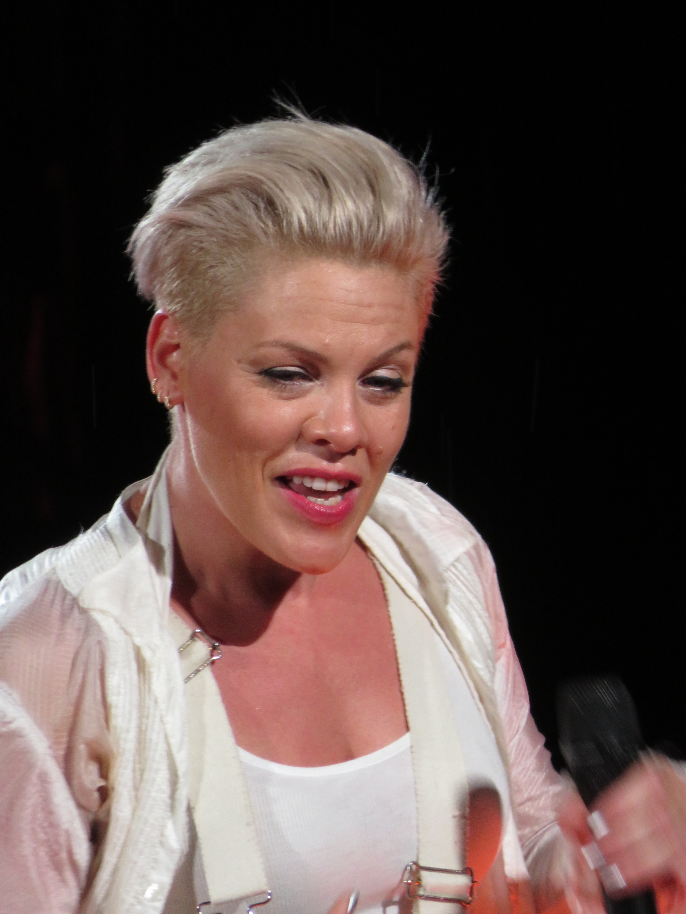 Pink, 2019-07-26, Olympiastadion, Munich, Germany